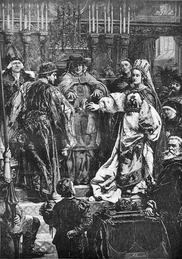 Wedding of King Casimir IV Jagiellon of Poland and Elizabeth Habsburg of Austria